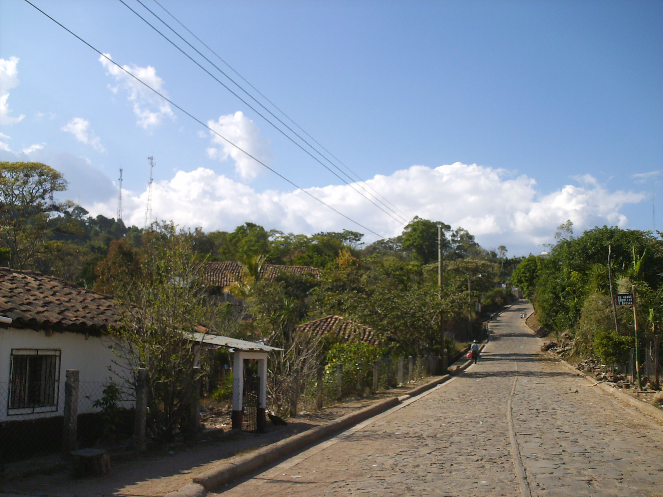 Valladolid, municipality in the Honduran department of Lempira.